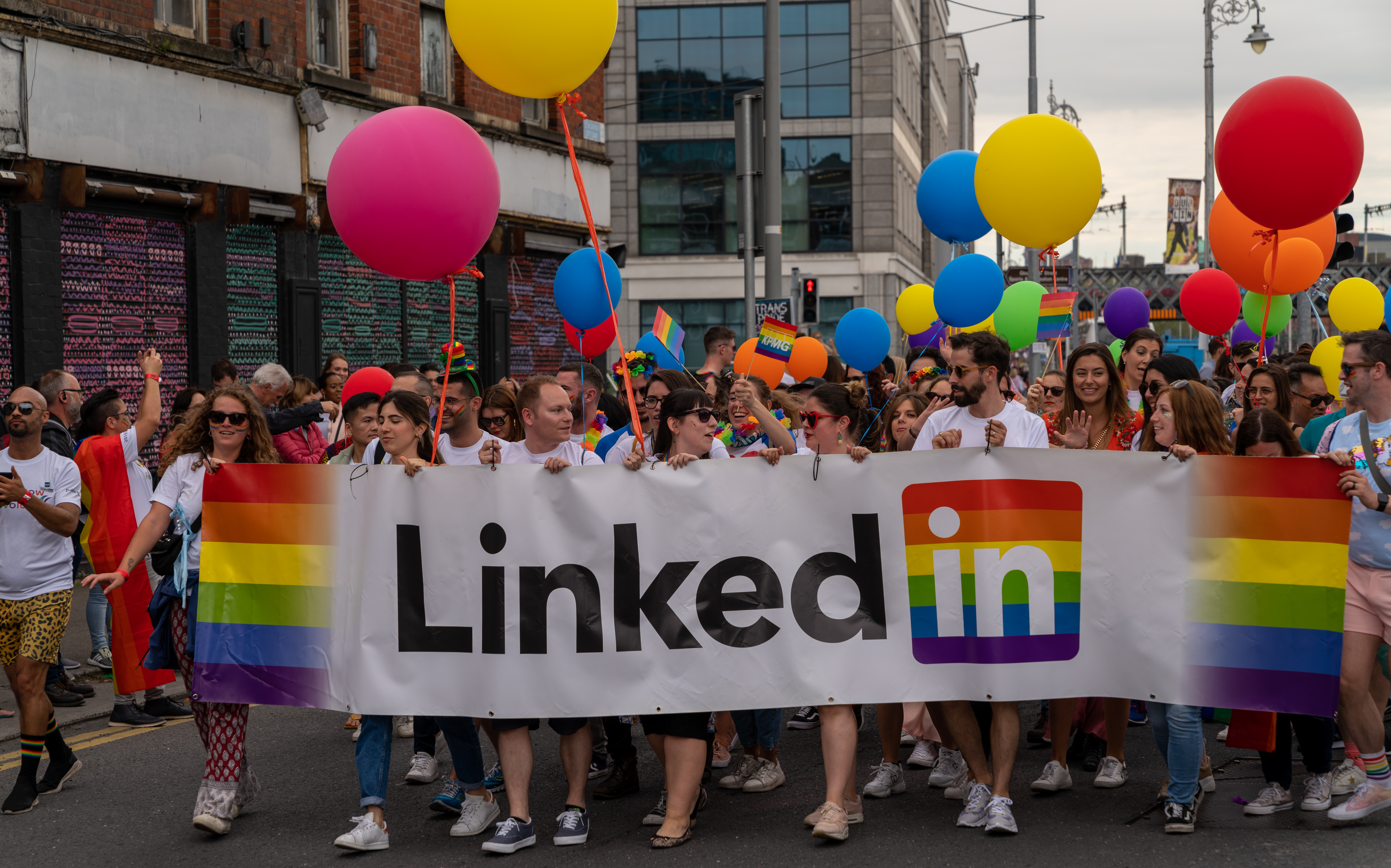 Right from the beginning I have photographed this annual event and I have always photographed in the backstage area before the parade actually set out. However, this year I could not gain access without media accreditation which caught me be surprise so I decided to go for lunch and then get the train to Greystones but on my way to the station I found a good location from which to photograph the parade so I took the opportunity. If you are not interest, I apologise in advance for the number of photographs that I have upload but I usually get a lot of requests form individuals seeking photographs of themselves so I do my best to include as many people as possible. June 28th marks the 50th anniversary of an uprising that changed the landscape of LGBTQ+ rights forever. Over six nights in 1969, members of the lesbian, gay, bisexual and transgender community resisted police oppression at the Stonewall Inn in New York City, igniting the modern fight for LGBTQ+ rights across the world.